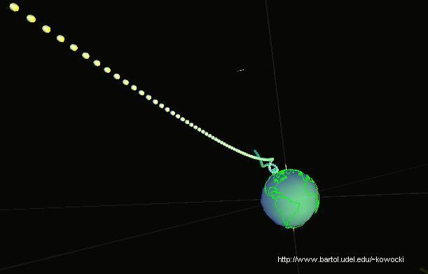 This image is a calculation of a negatively charged particle trajectories through the magnetosphere, Project information containing information about different Kp index is available at